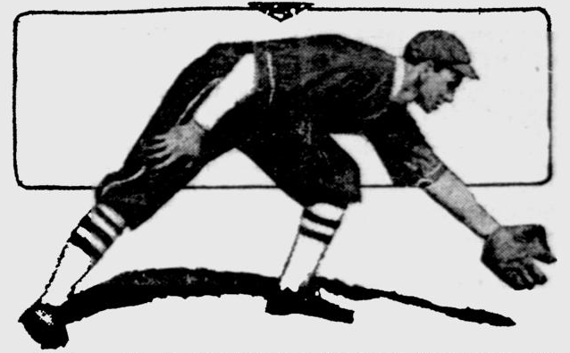 Art Kores as a member of the Portland Beavers.